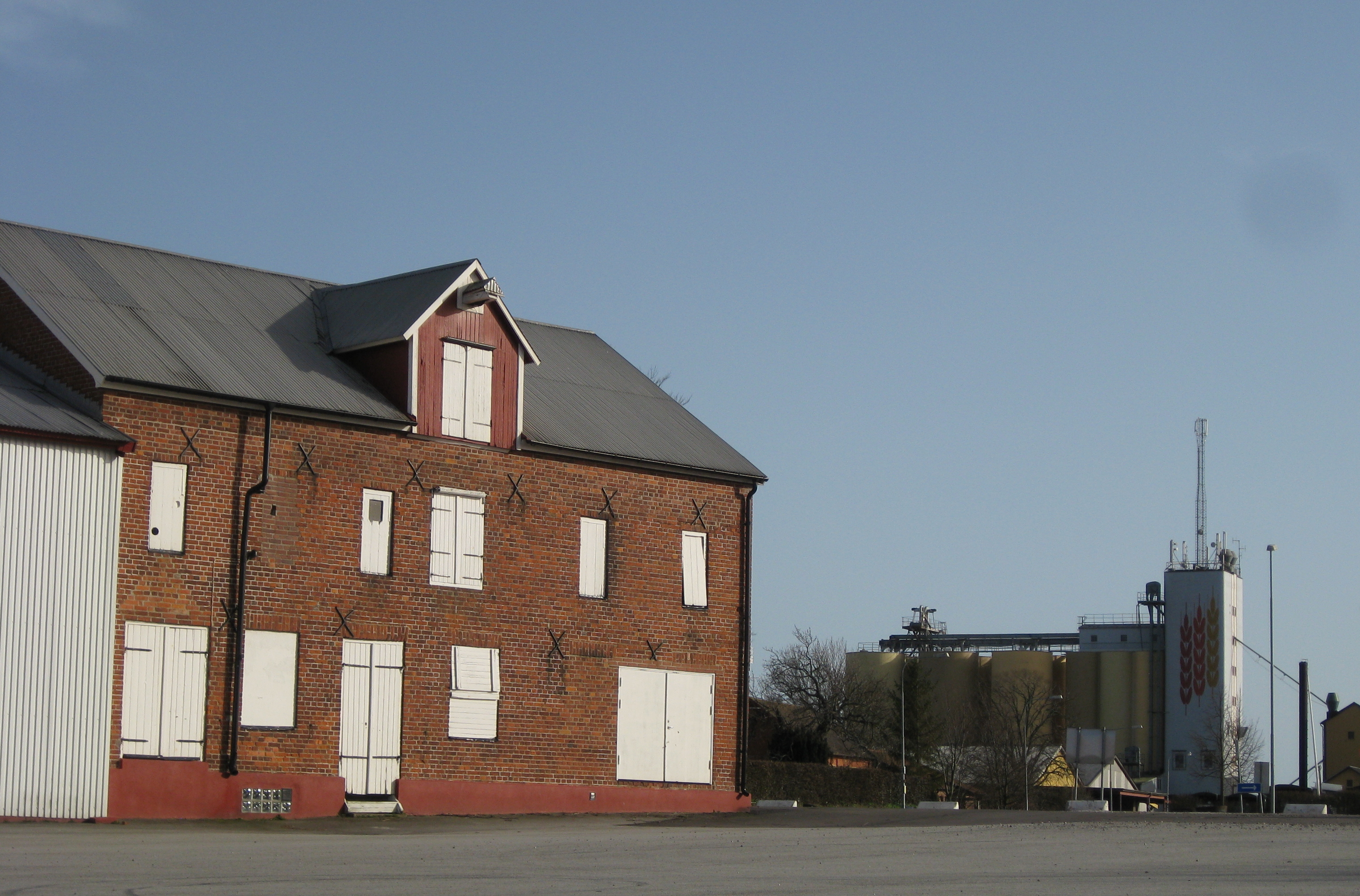 Storage buildings in Alstad, Skåne, Sweden